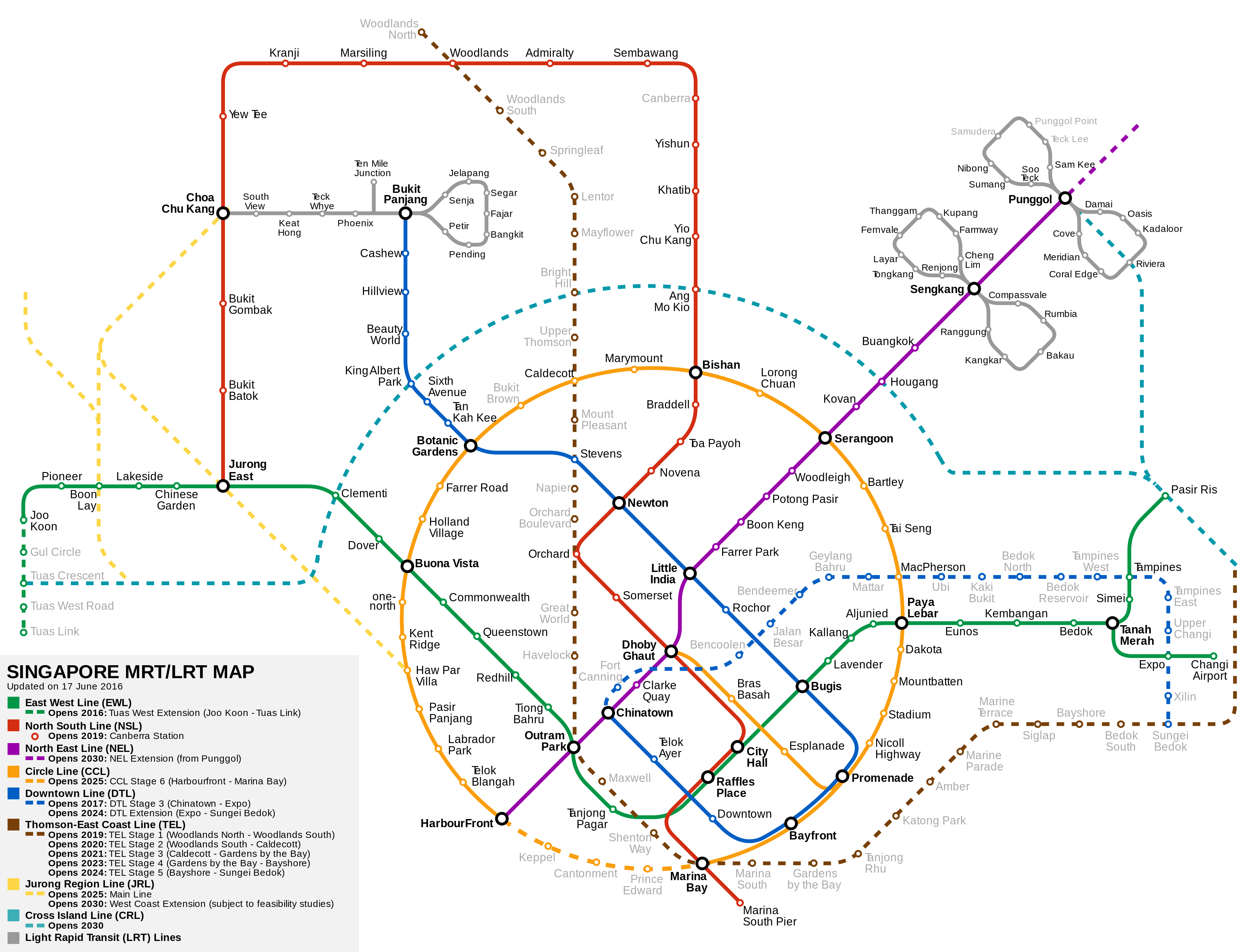 A map of Singapore's Mass Rapid Transit (MRT) and Light Rail Transit (LRT) systems, as of 26 February 2014.